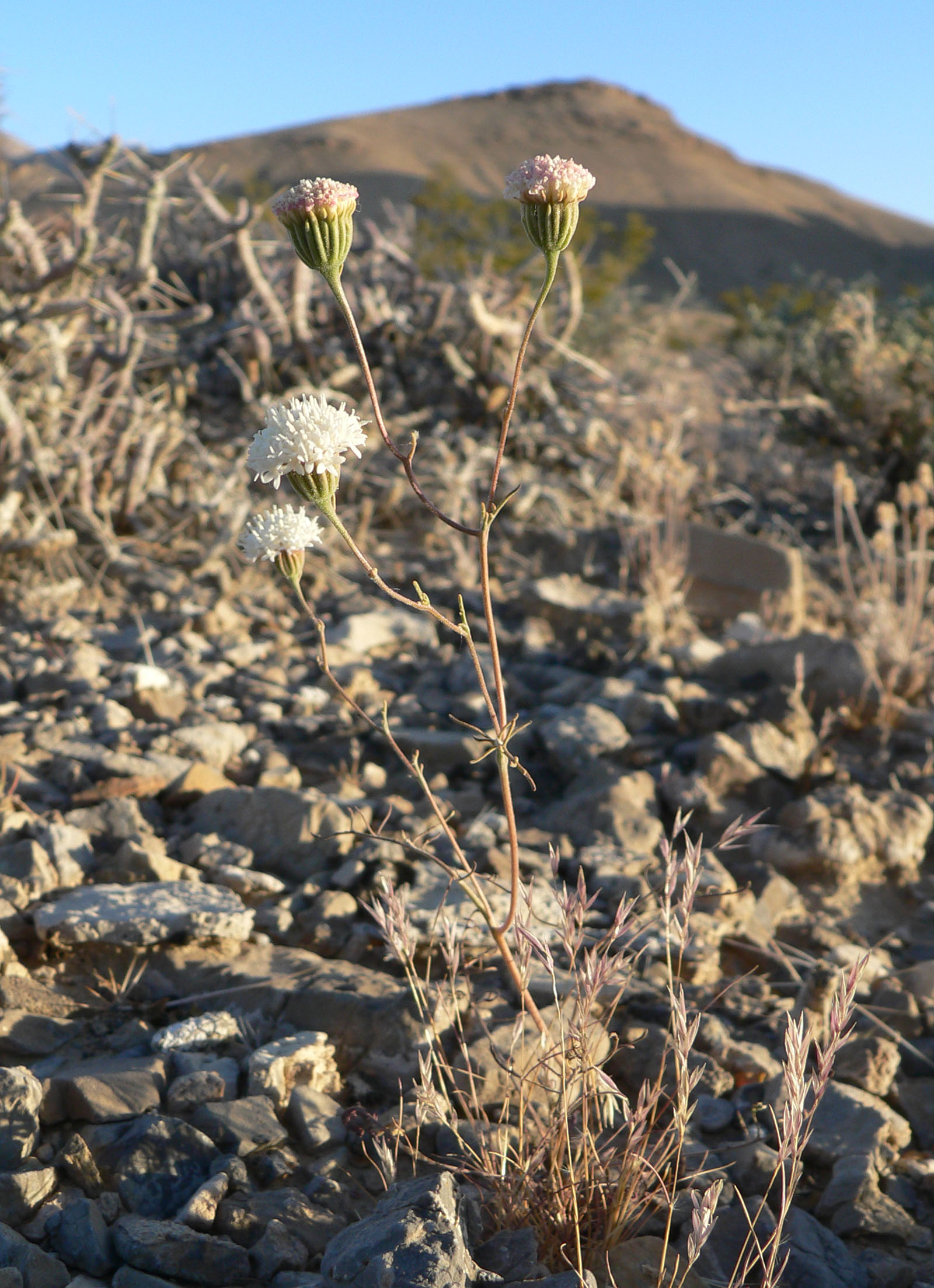 Chaenactis carphoclinia var. carphoclinia in the State Line Hills, Spring Mountains, just west of Primm, Nevada (elev. about 800 m)